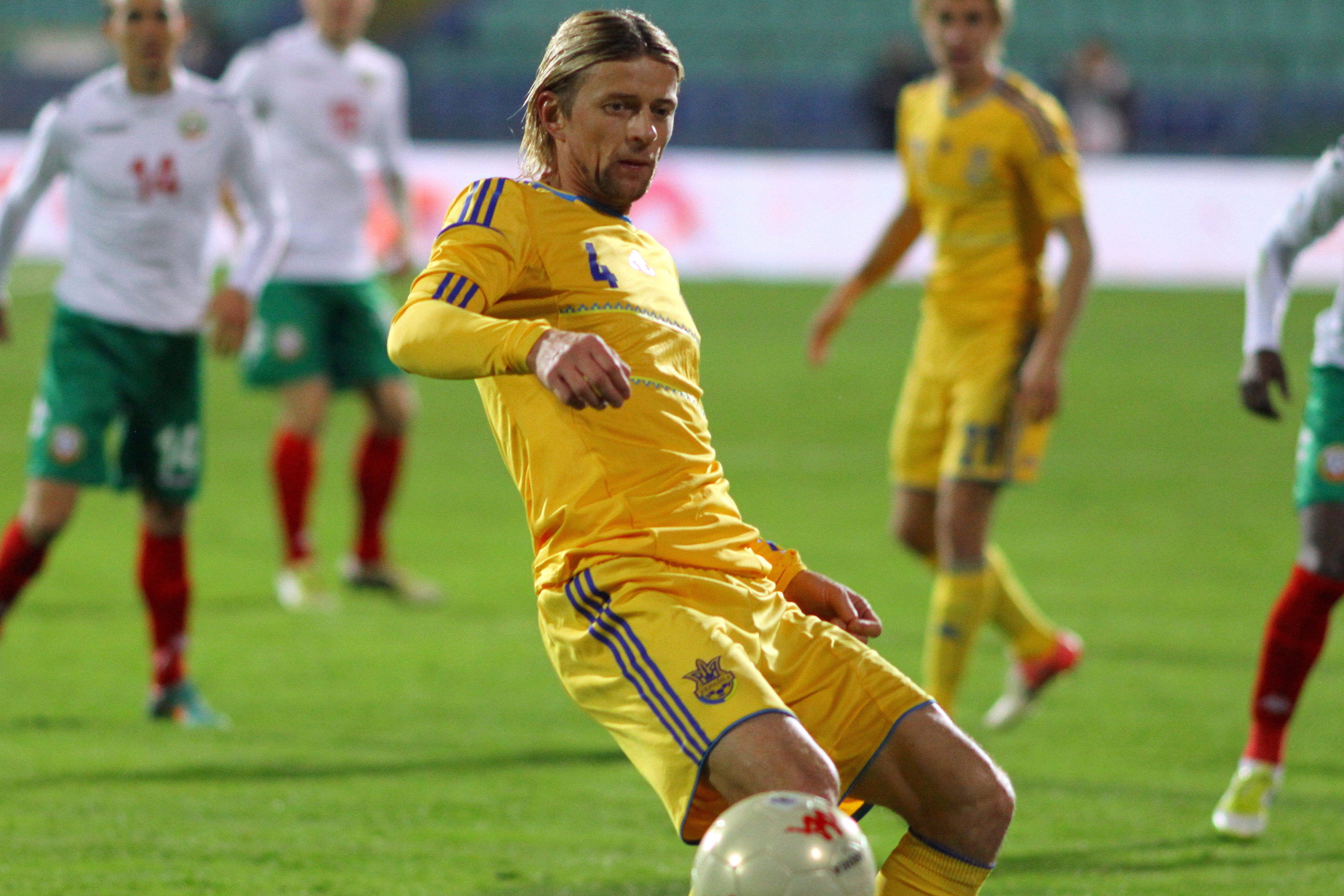 Anatoliy Oleksandrovych Tymoshchuk (born 30 March 1979 in Lutsk) is a Ukrainian football midfielder who plays for German Bundesliga club Bayern Munich.